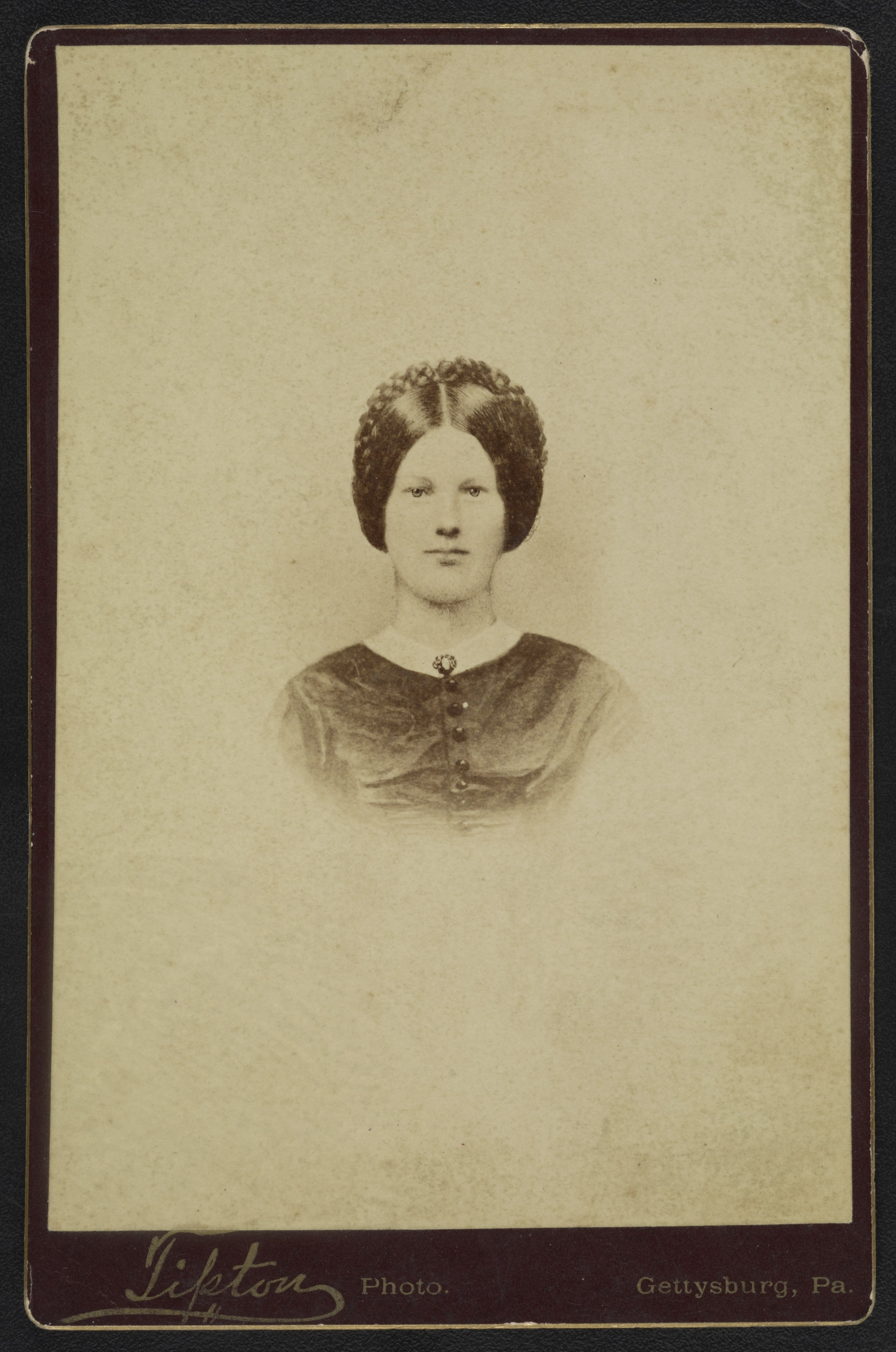 Title: Jennie Wade] / Tipton, Gettysburg, Pa Abstract/medium: 1 photograph : albumen print on card mount ; mount 17 x 11 cm (cabinet card format)